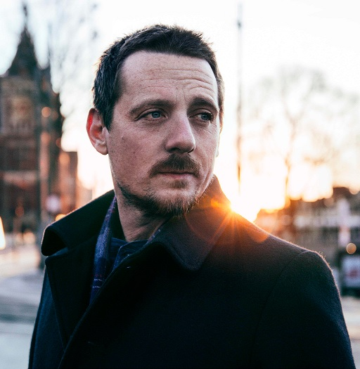 Sturgill Simpson photo from 2016.